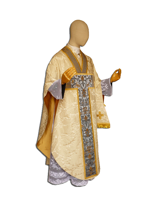 Chasuble in Renaissance style called borromaea because the model has been used by Saint Charles Borromaeus. Orphreys in blue lampas recall the marian color, while maintaining the body of the vestment in white damask, which is requested in Roman Rite for the celebrations of the Blessed Virgin. Design: Pietro Siffi. Copyright: Ars Regia